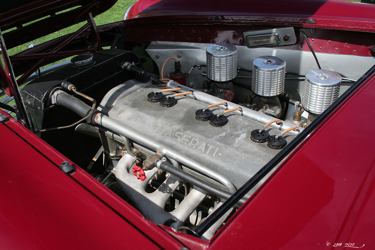 1951 Maserati A6G 2000 Coupé Pininfarina. 2008 Desert Classic Concours d'Elegance in Palm Springs, California.